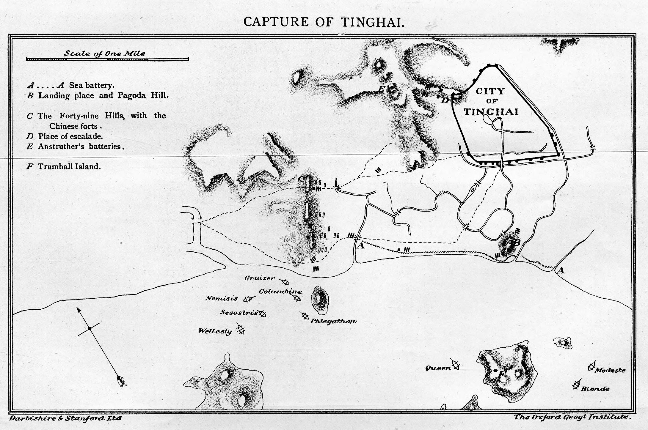 Map of the capture of Tinghai